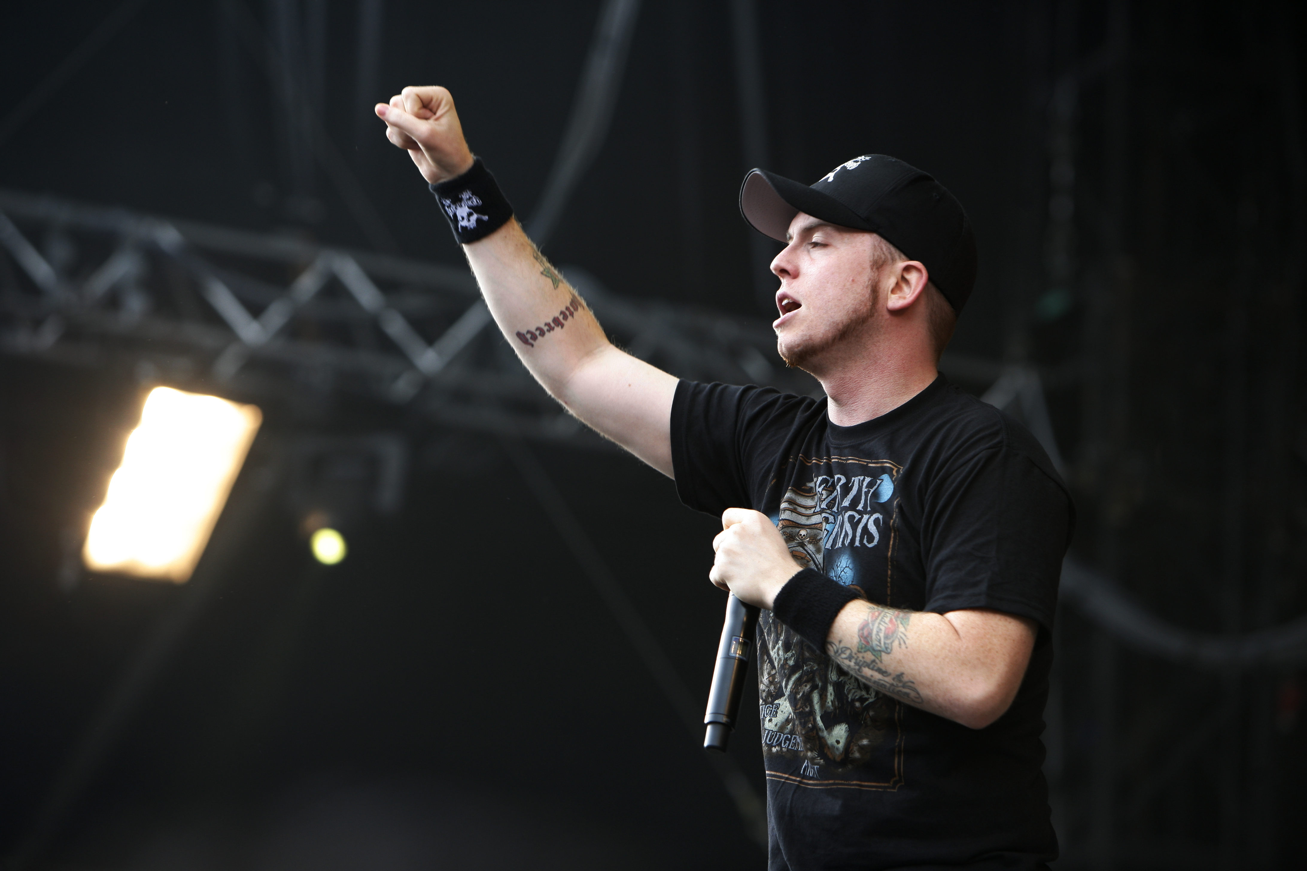 Hatebreed at the Eurockéennes of 2007